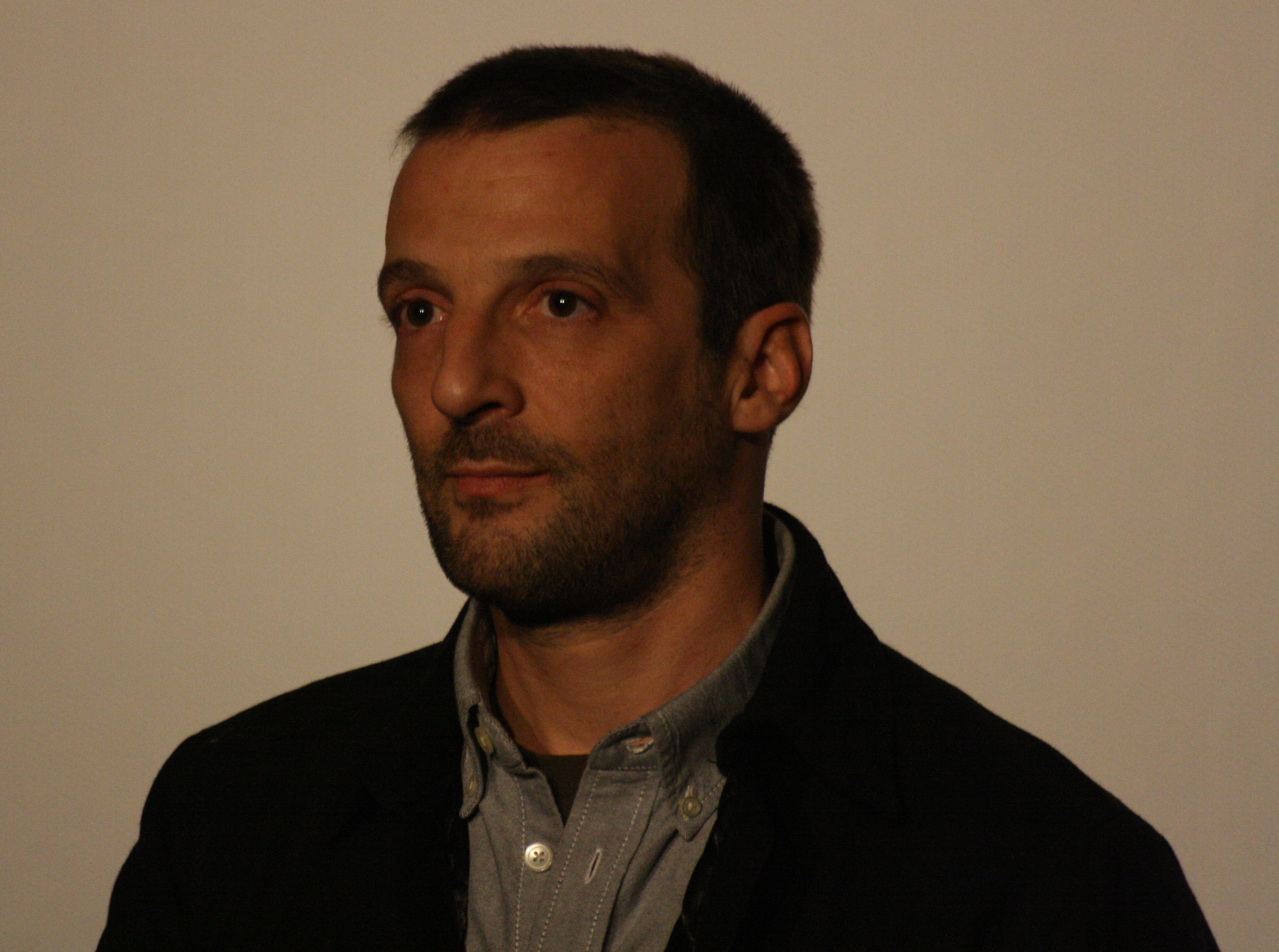 Mathieu Kassovitz, french director, during the preview of the movie L'Ordre et la Morale at the movie theater UGC Cité Ciné SQY in Saint Quentin en Yvelines, France.